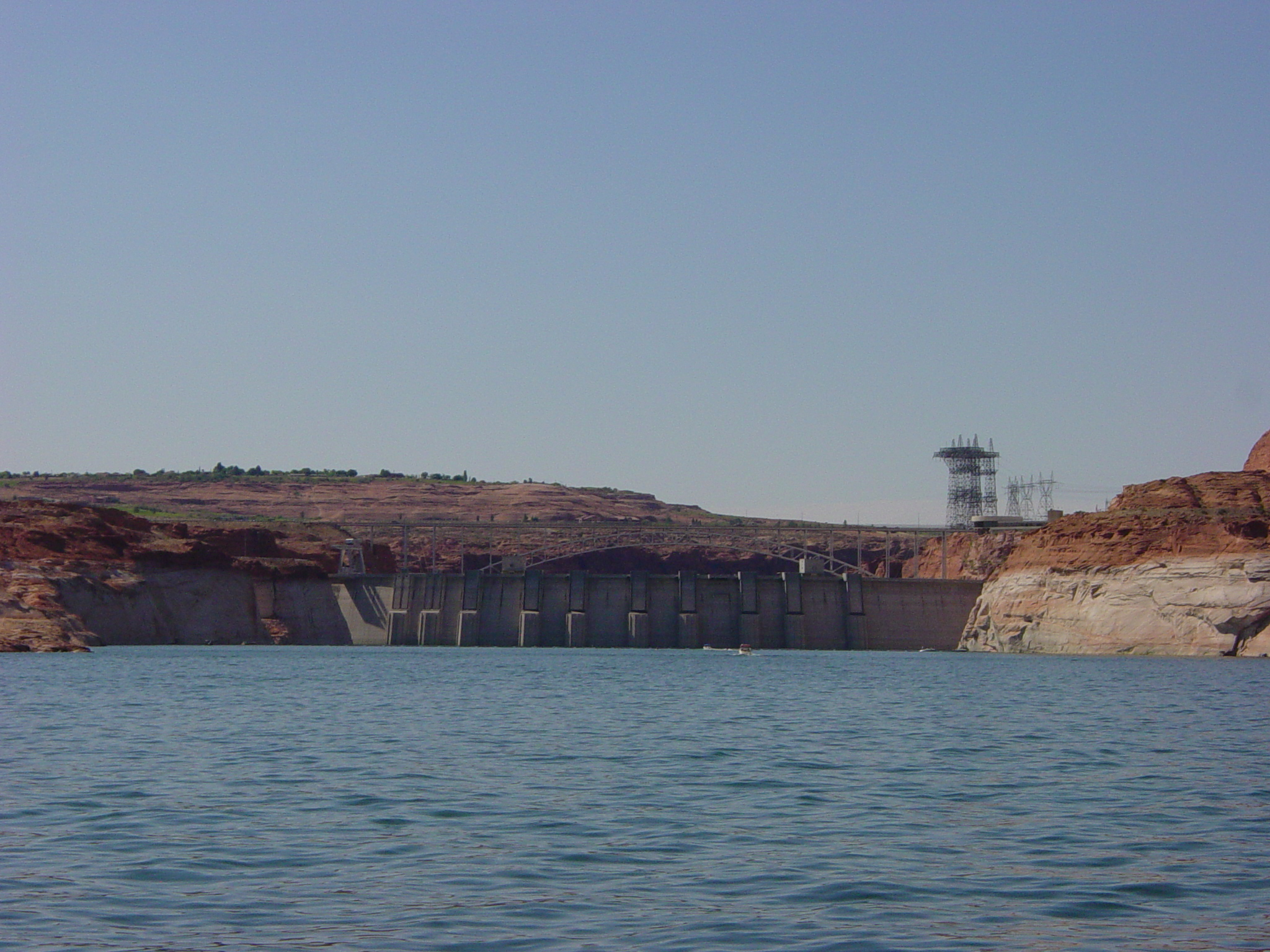 Image by User:Leonard G., taken May 19th, 2006. The two gates at left control water to internal spillways, the remaining eight control water to the generator sets.